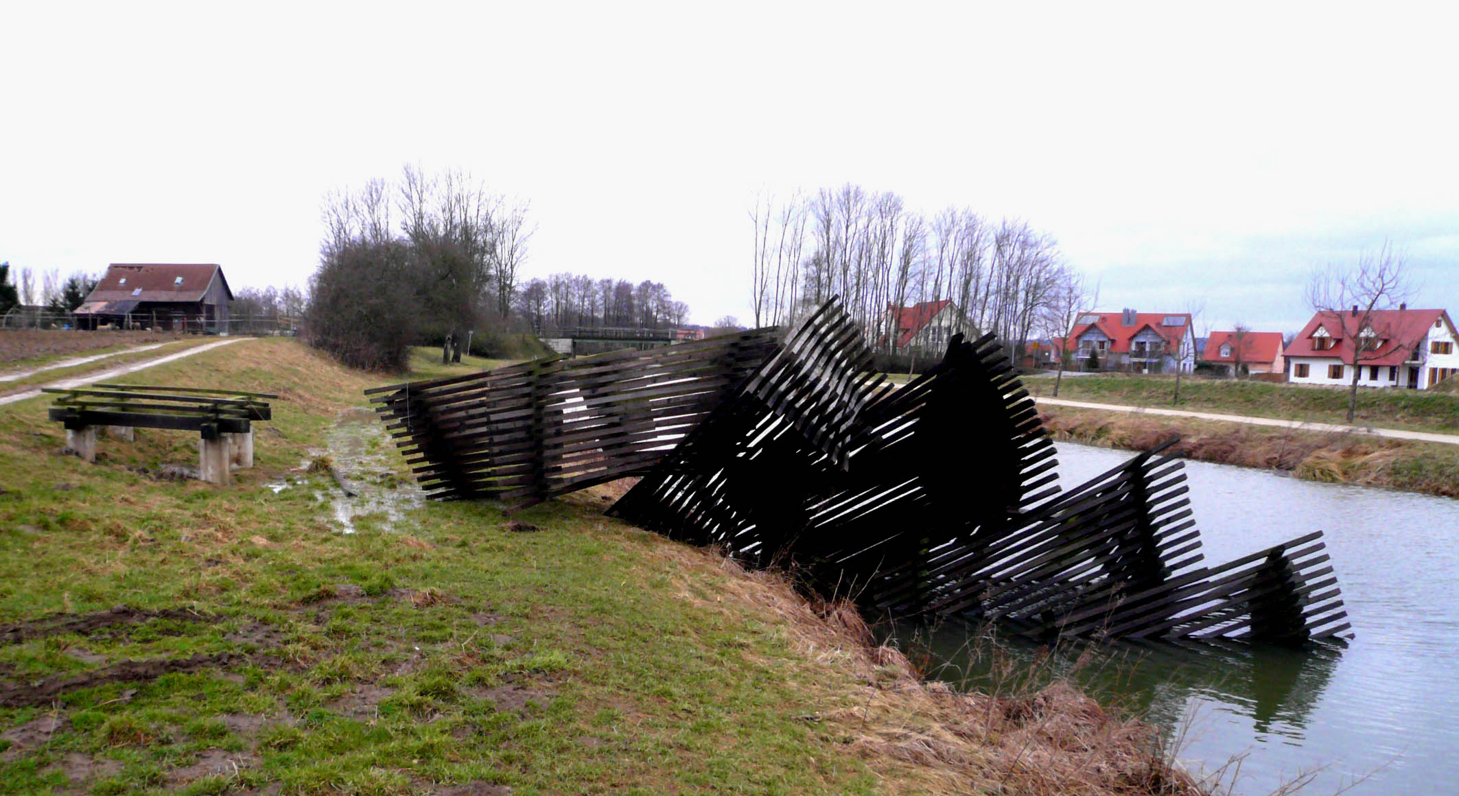 Stapelung 3 destroyed by storm Emma